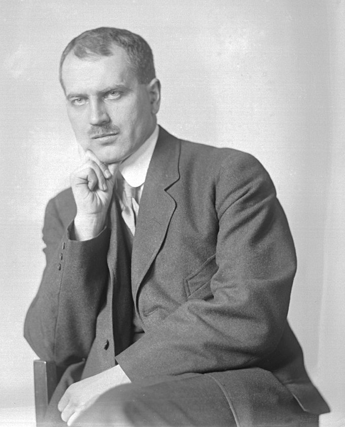 Melvin Ormond Hammond (1876 – 1934), self-portrait ca. 1910.